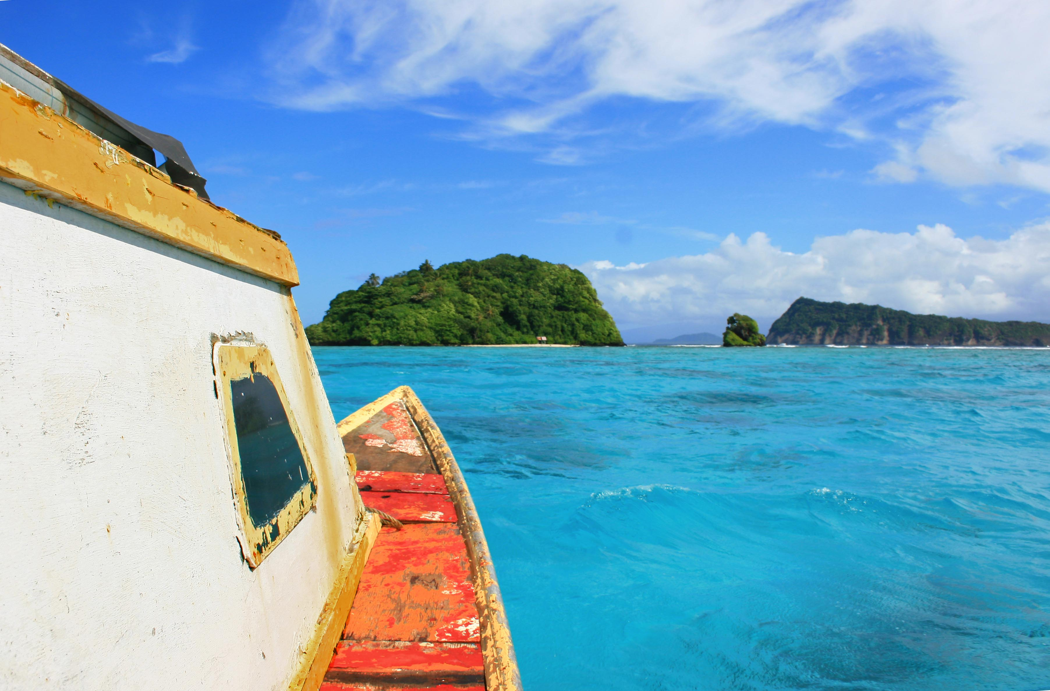 Uninhabited Nu'ulopa island in the Apolima Strait in Samoa. Photo taken from a boat heading towards Nu'ulopa for a picnic. It was a lovely sunny day. Apolima-tai (village on Apolima island) is to the right, and Savai'i island is in the distance.